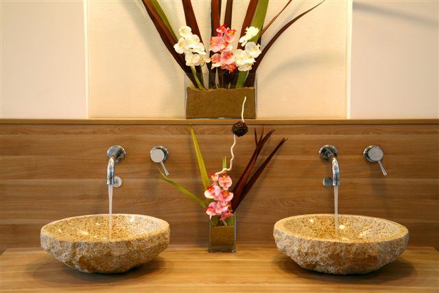 LD Hanačka - kohoutky se sirnou vodou